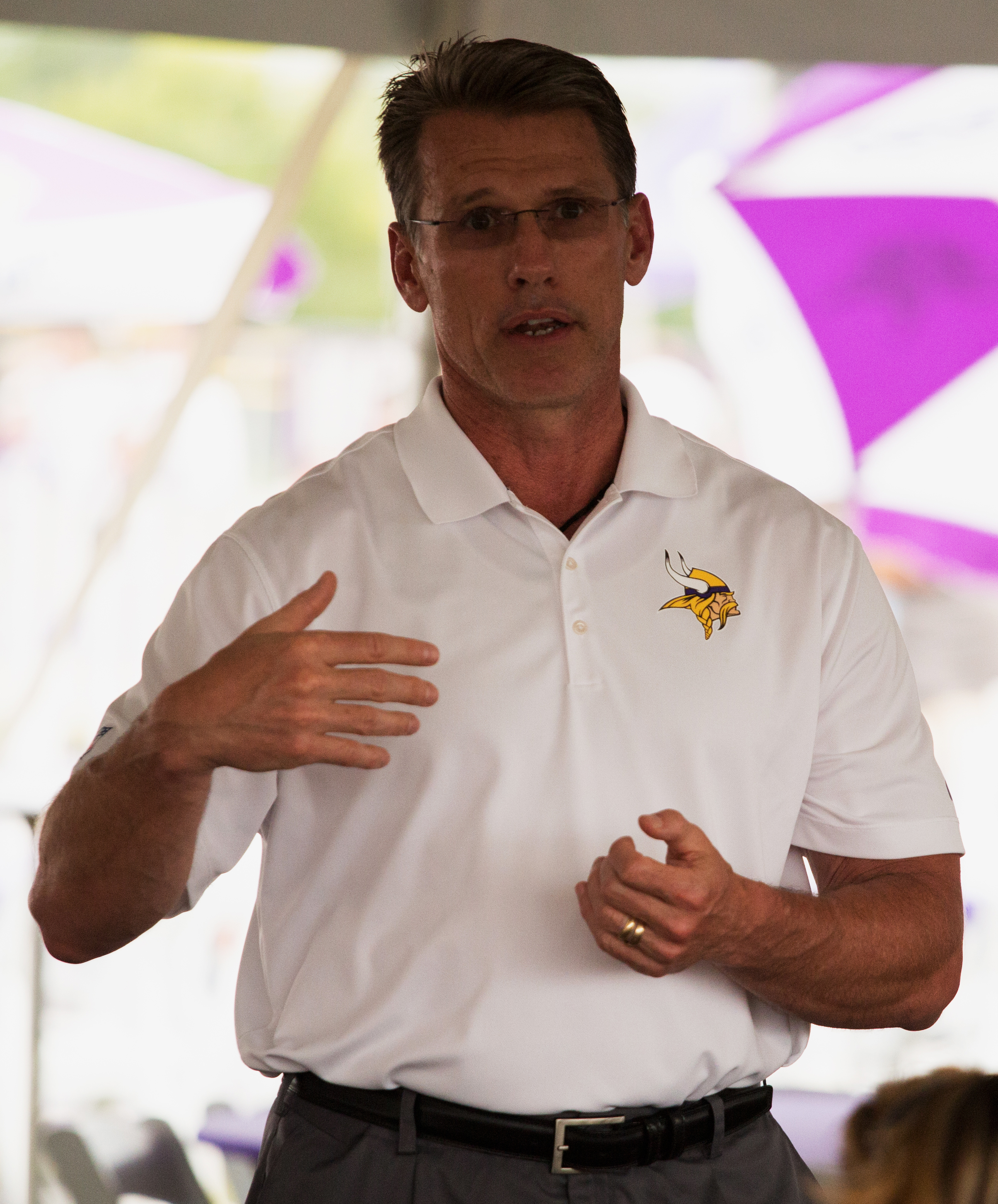 Minnesota Vikings general manager Rick Spielman during 2014 training camp